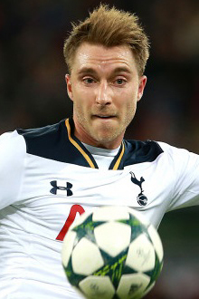 Eriksen in action against CSKA Moscow during a 2016 Champions League match.